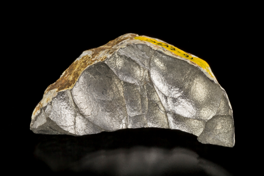 Stibarsen Locality: Moctezuma Mine (Bambolla Mine), Moctezuma, Mun. de Moctezuma, Sonora, Mexico Size: 5.8 x 3.0 x 1.6 cm A beautiful, lustrous specimen of stibarsen. The piece is convex on one side, concave on the other. This mineral is composed of simply AsSb - arsenic and antimony, with no other elements. From the collection of the University of Arizona Museum. Joe Budd photos.